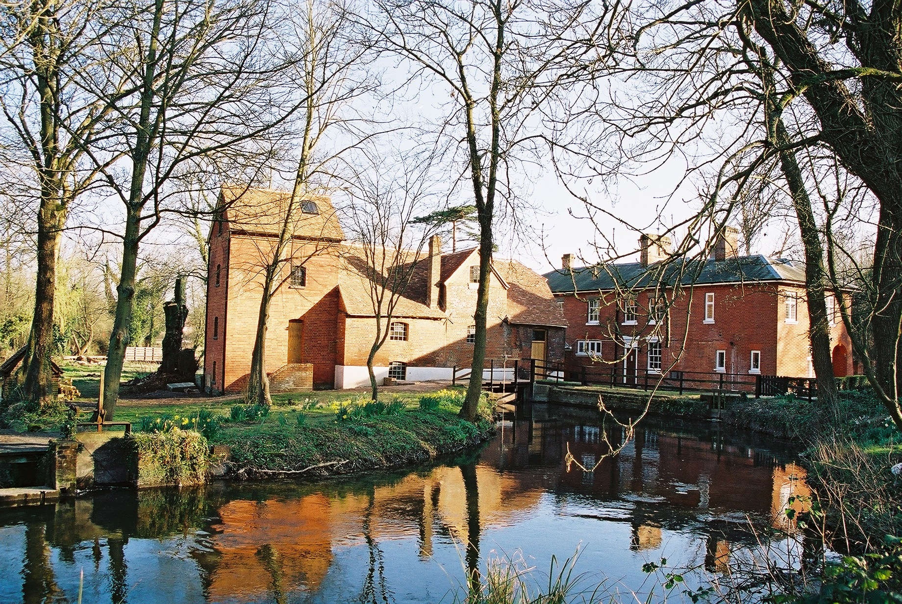 Rooksbury Mill & Mill House, Andover, Hampshire, England West Elevation After Restoration in 2003 Source: Anthony de Sigley